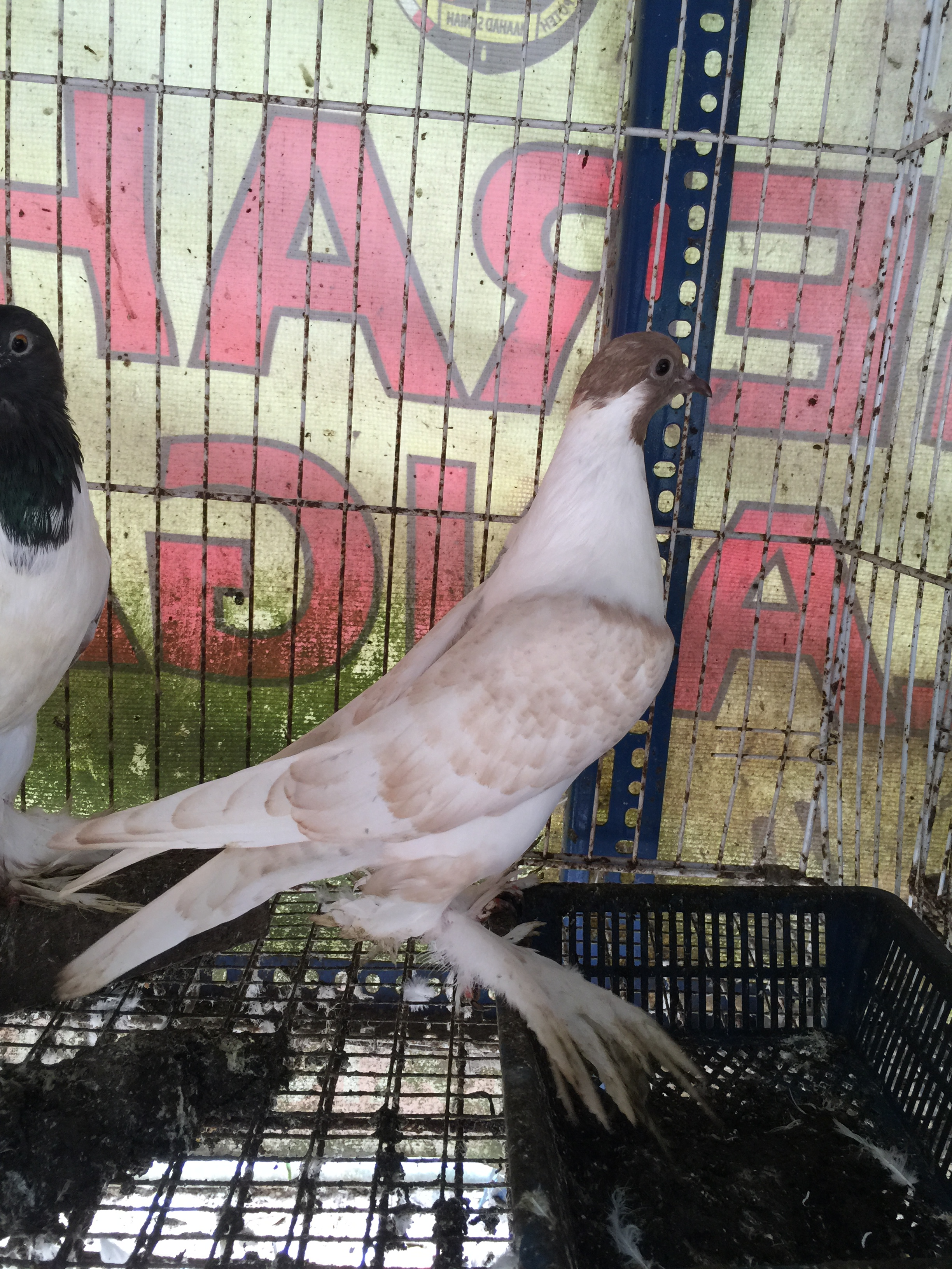 A Hana Pouter pigeon